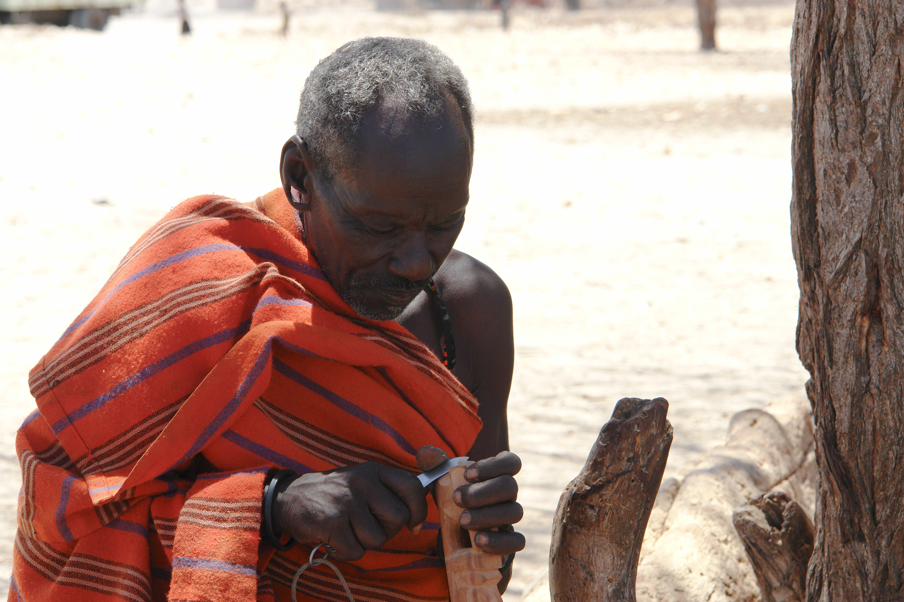 Samburu man carving wood.